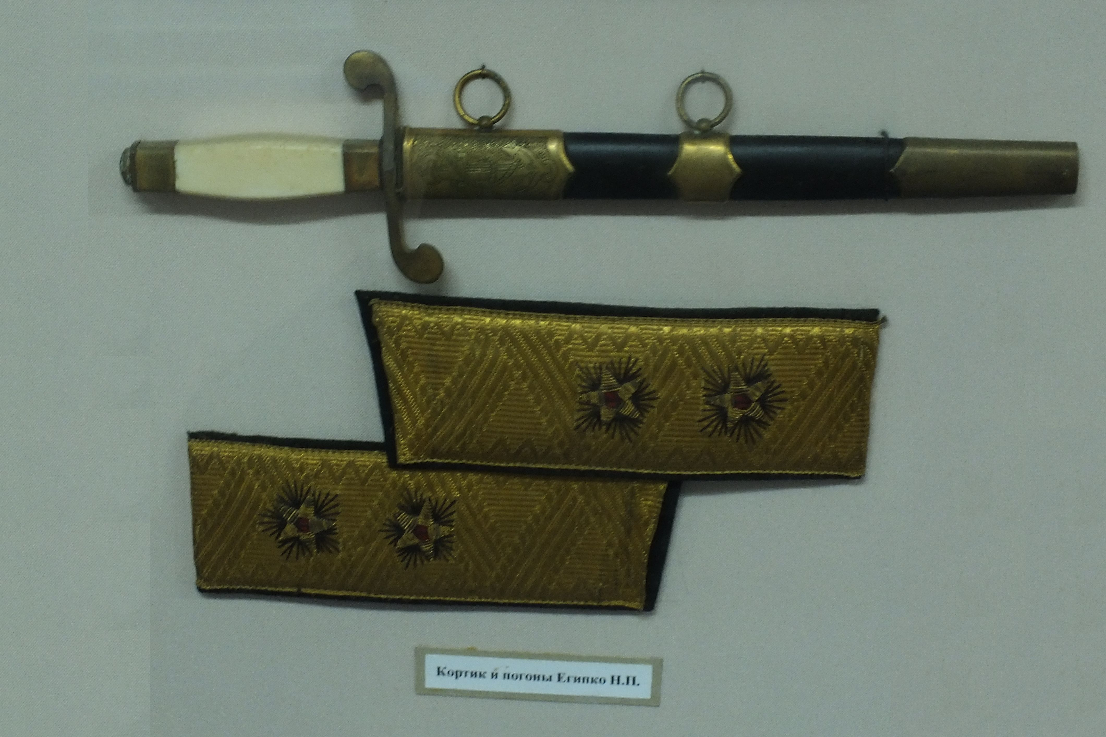 S-56 Submarine Monument (Vladivostok)